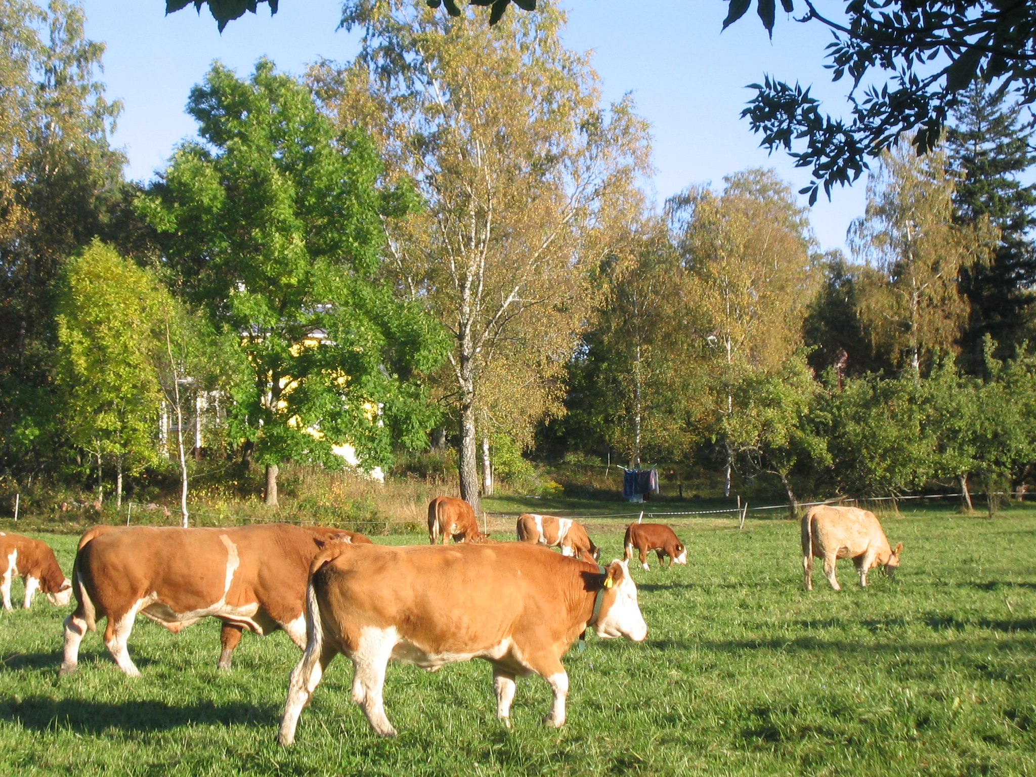 Simmental cows on Aland, Finland.